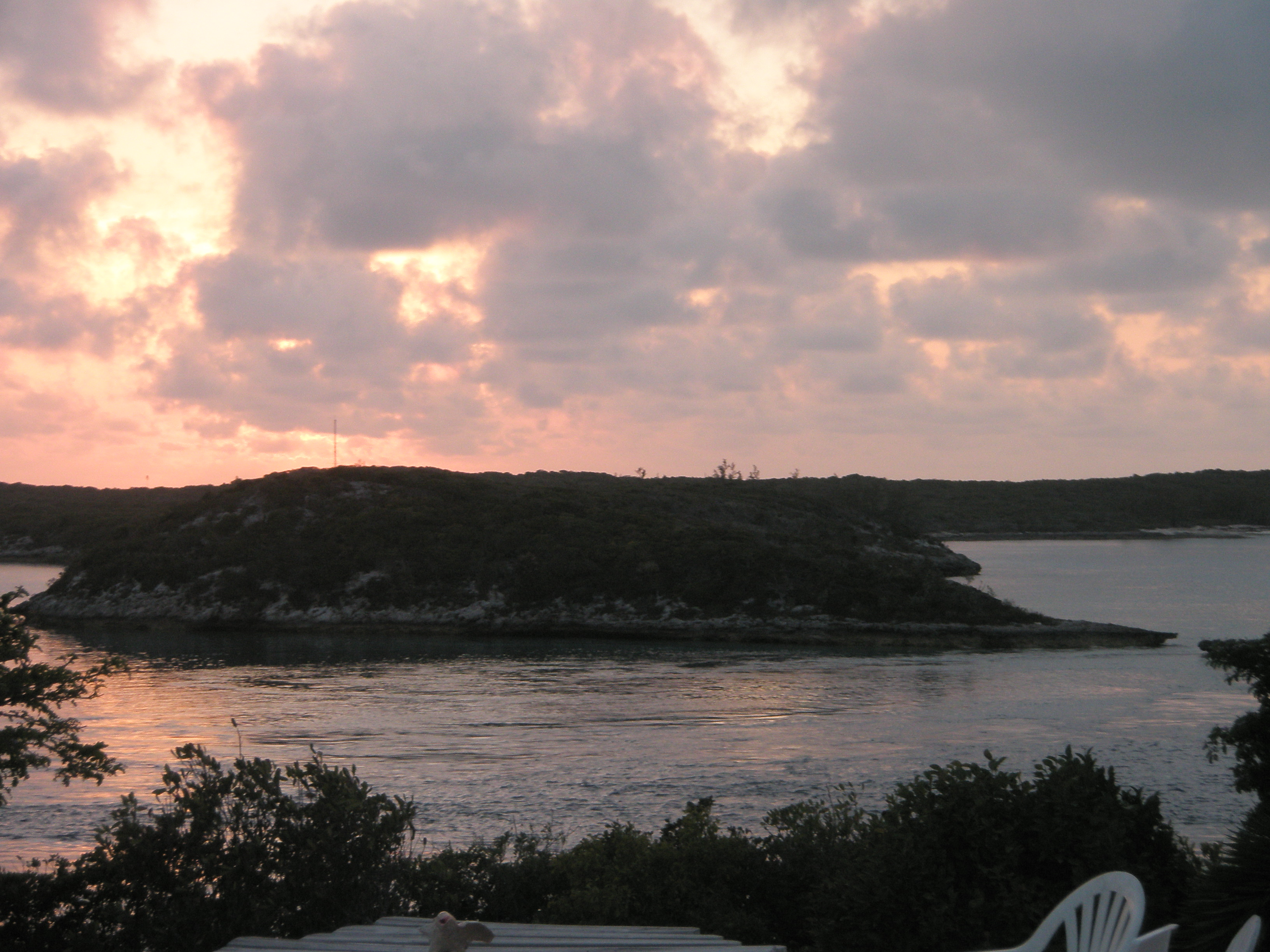 Beautiful sunset from the Thunderball restaurant in Staniel Cay, Bahamas.